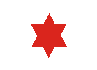 VIII Corps, Middle Department, 1st Division Badge